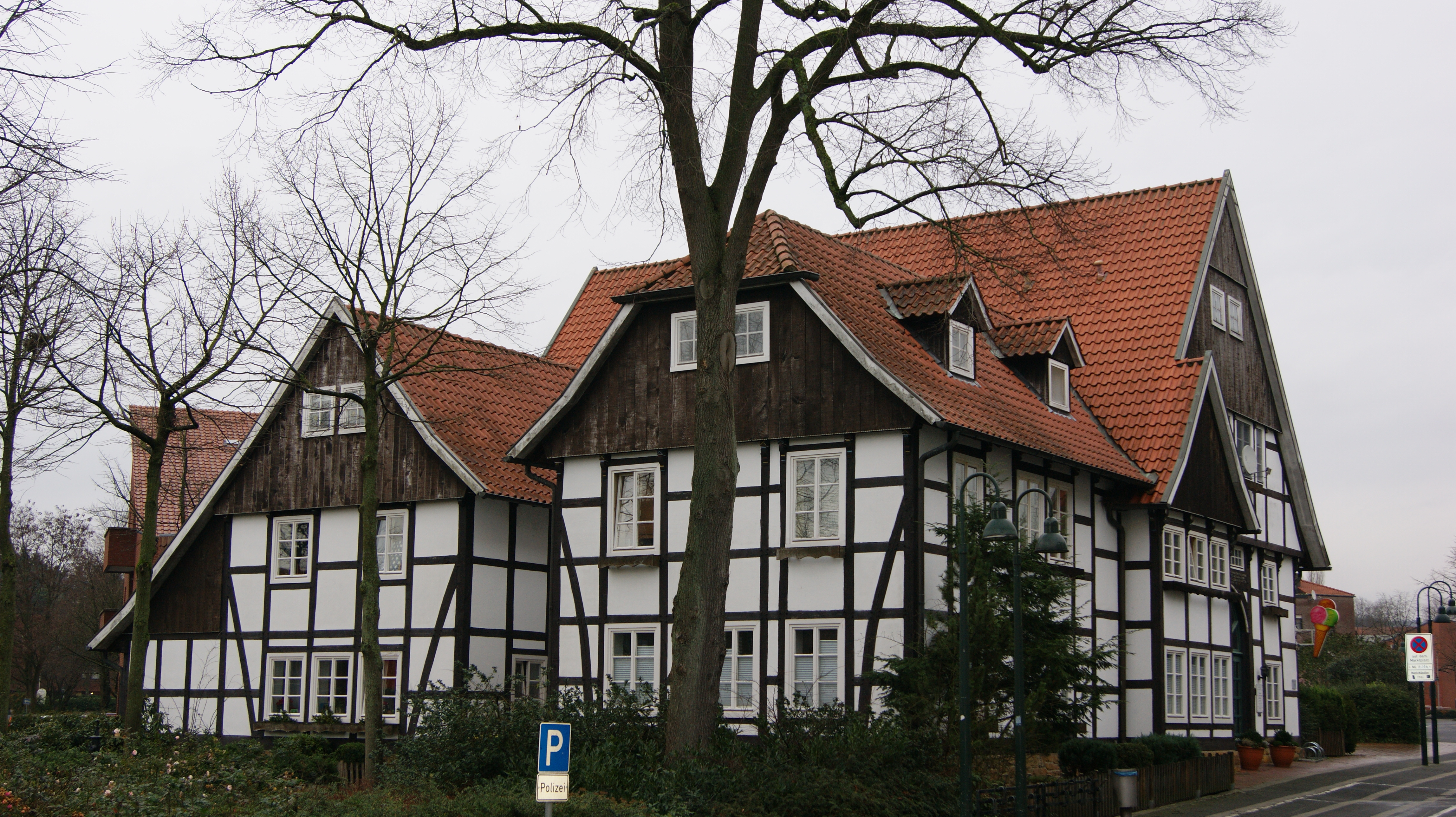 Brinkhouse in the Brinkstreet (Brinlkstrasse) No. 17 in Steinhagen, Westphalia, Germany. 1715 built by the family Brinkmann. Half-timbered buildings, so-called Durchgangsdeelenhaus. 1747 extended. 1982 - 1984 completely renovated.